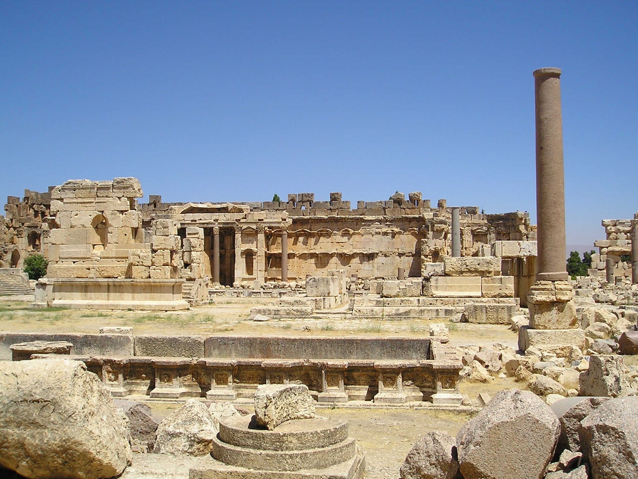 Baalbek, Lebanon - the Great Court